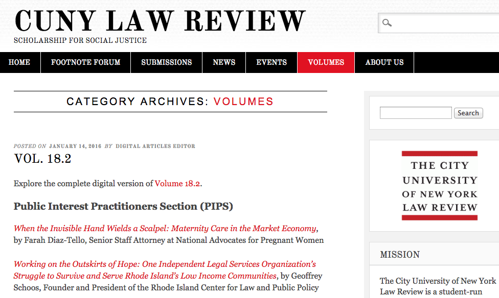 A web archive of the CUNY Law Review, Volume 18.2, one of the various volumes CUNY Law Review has edited during its 20 years in publication.